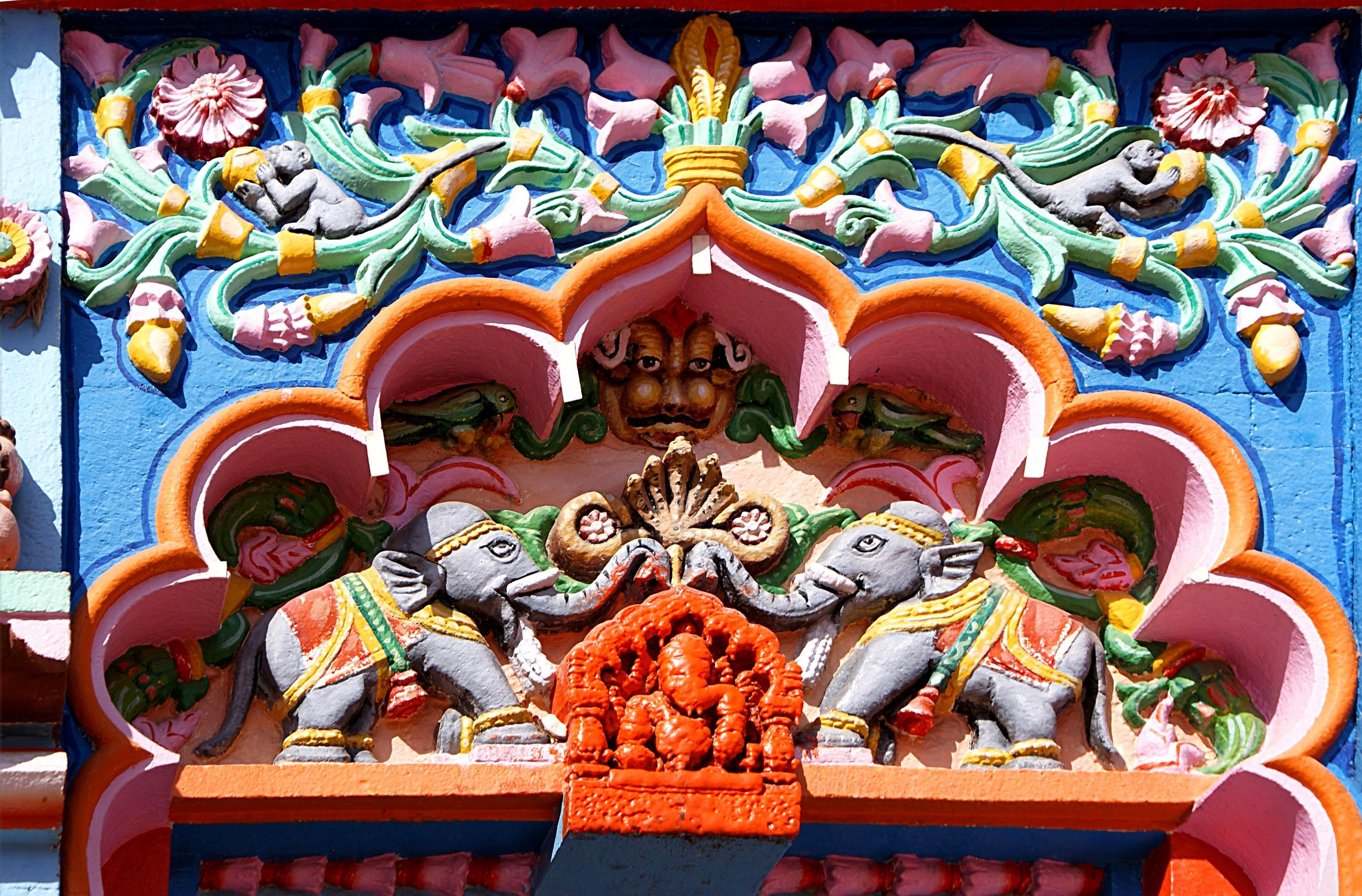 The history encompassing this idol states that Vighnasura, a demon was created by the King of Gods, Indra to destroy the prayer organized by King Abhinandan. However, the demon went a step further and destroyed all vedic, religious acts and to answer the people's prayers for protection, Ganesh was called to defeat him. Ganesha was of course victorious. The story goes on to say that once being conquered, the demon begged Ganesha to show him mercy. Ganesha then granted in his plea, but on the condition that the demon should not go to the place where Ganesha is being worshiped. In return the demon asked a favour that his name should be taken before Ganesha's name, thus the name of Ganesha became Vighnahar or Vighneshwar (Vighna in Sanskrit means a sudden interruption in the ongoing work due to some unforeseen, unwarranted event or cause). The Ganesha here is called Shri Vighneshwar Vinayak, which also means simply "the remover of obstacles".